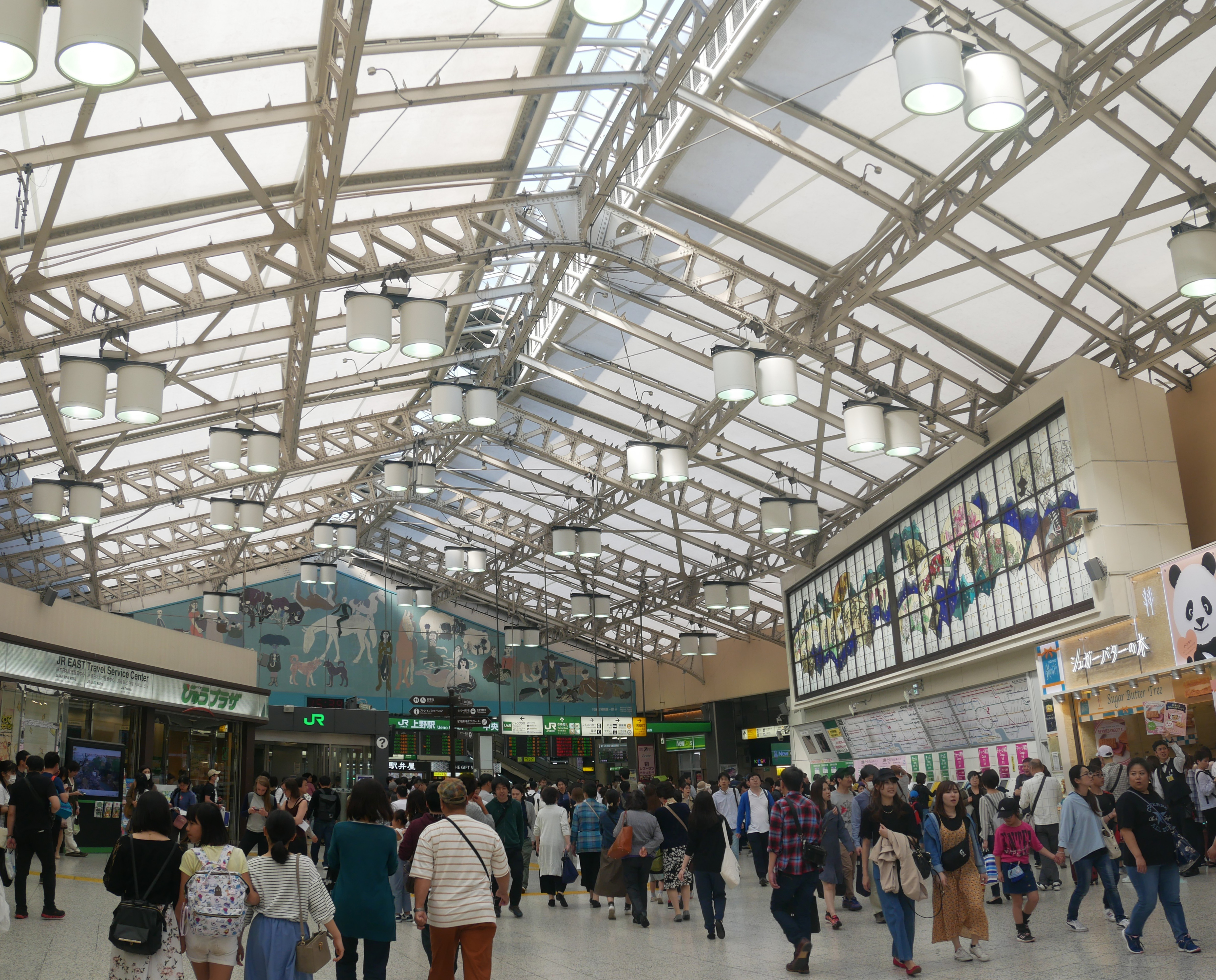 ＪＲ上野駅の中央口改札 (JR Ueno Station central ticket gates)